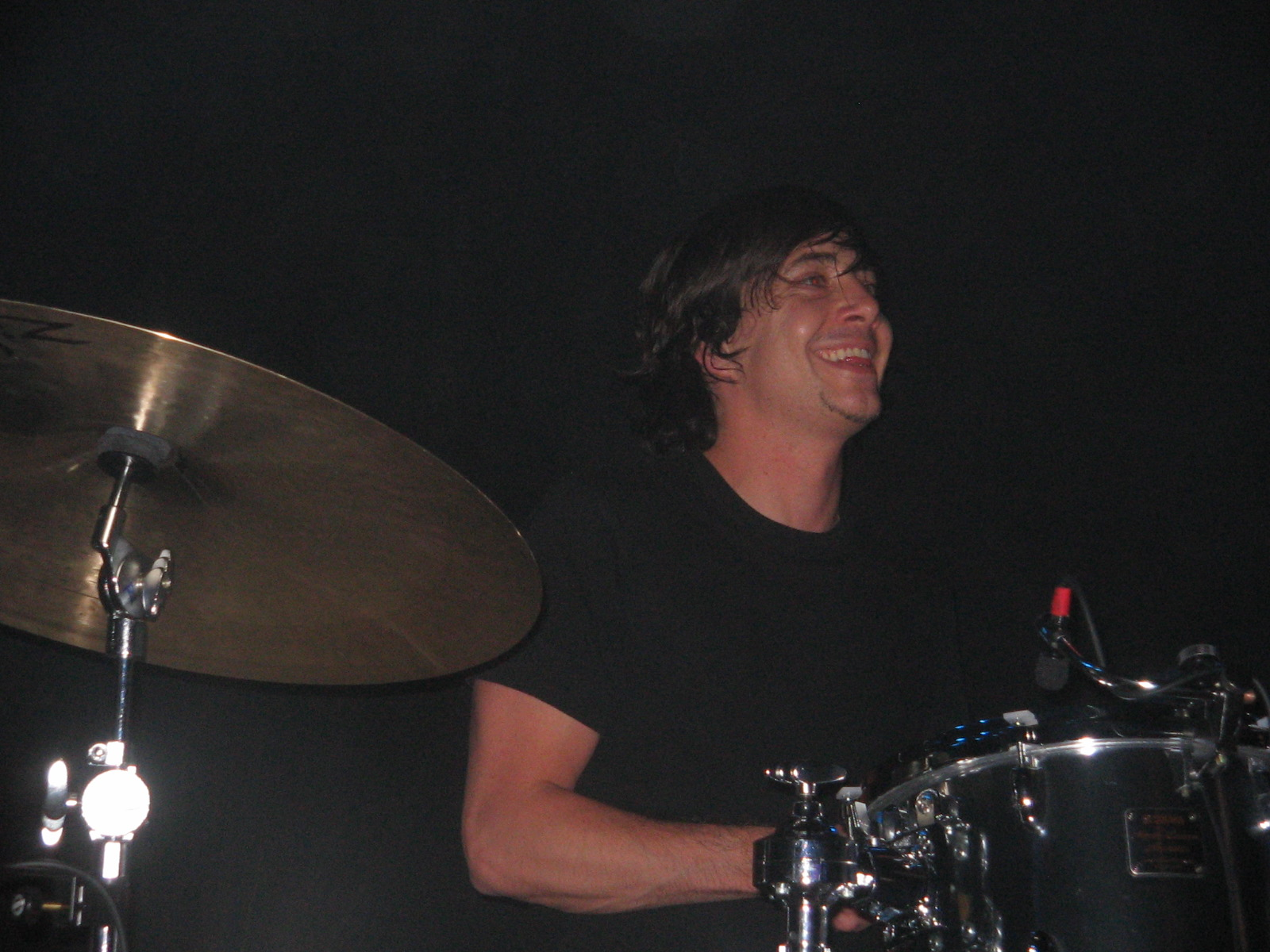 crazilazigurl, own photo, from M5 concert on June 2, 2007